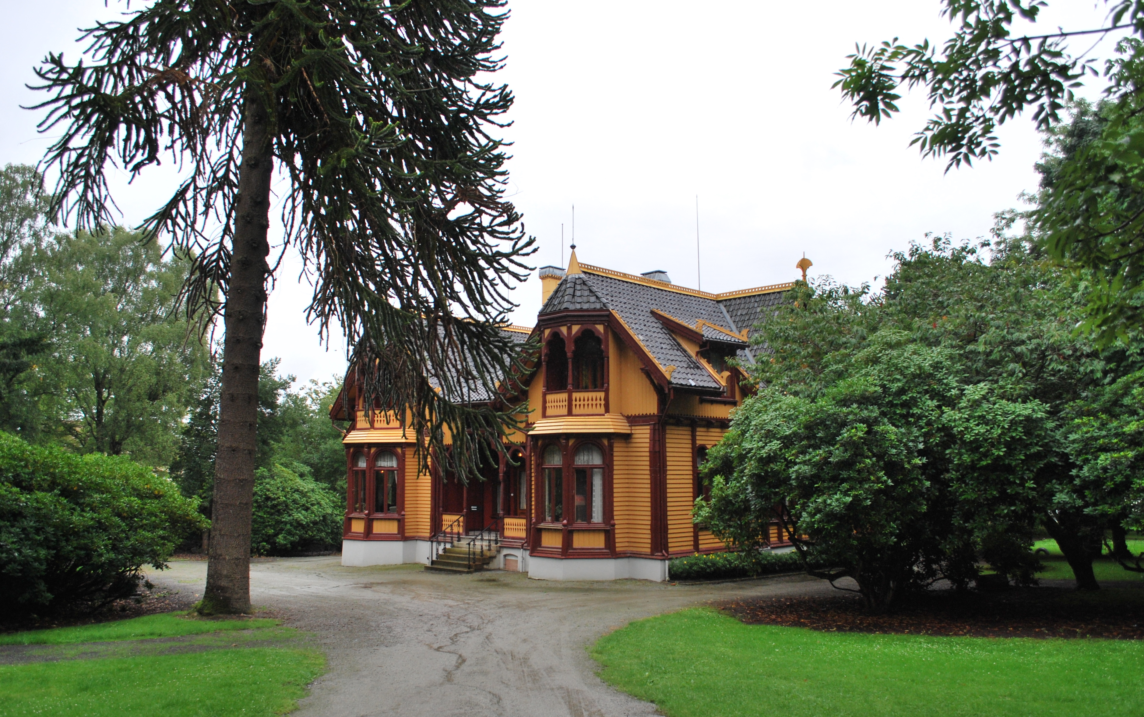 Breidablikk, 1881, today run by Stavanger Museum, Stavanger, Norway